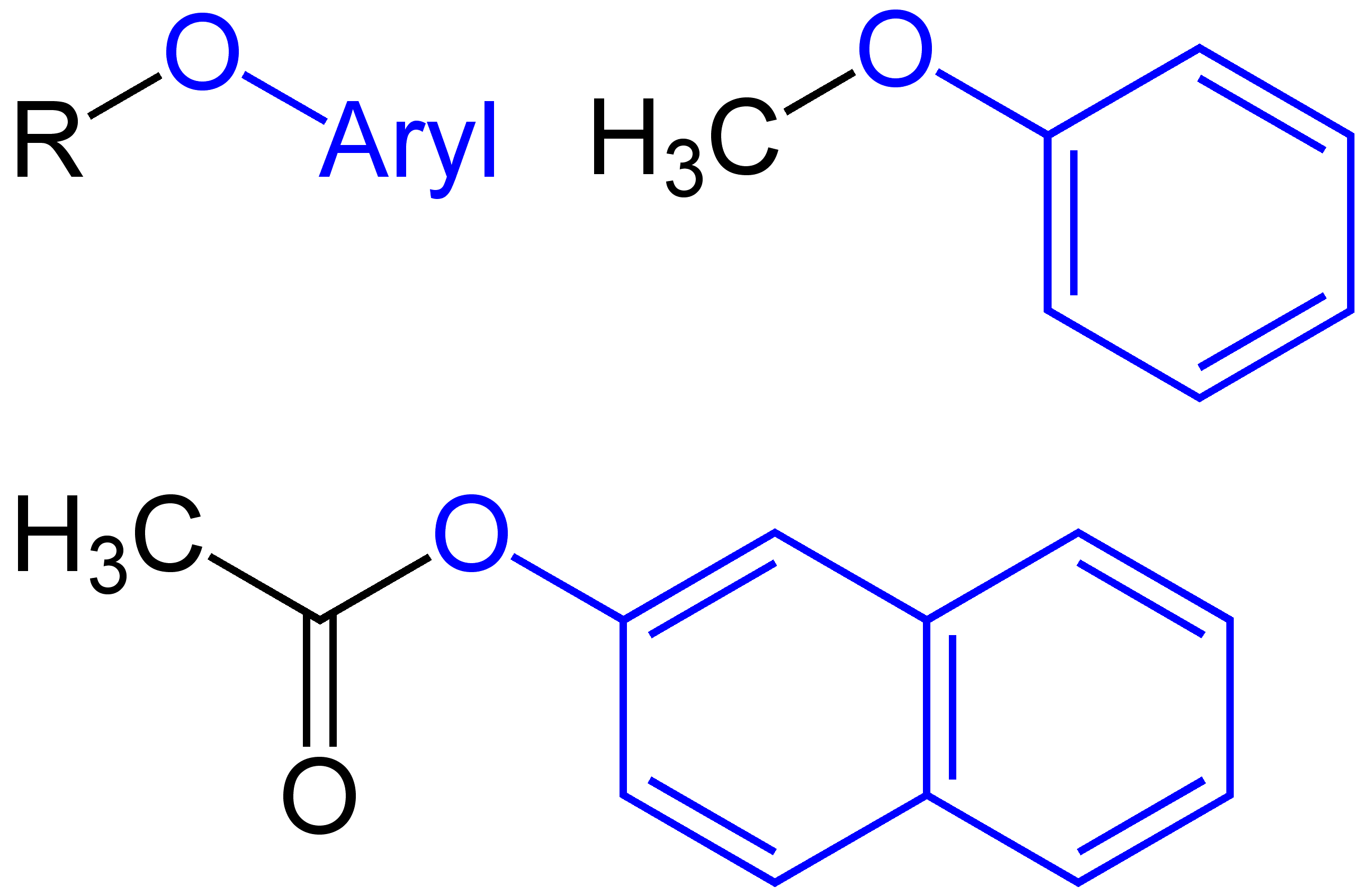 Aryloxy_group_structural_formulae